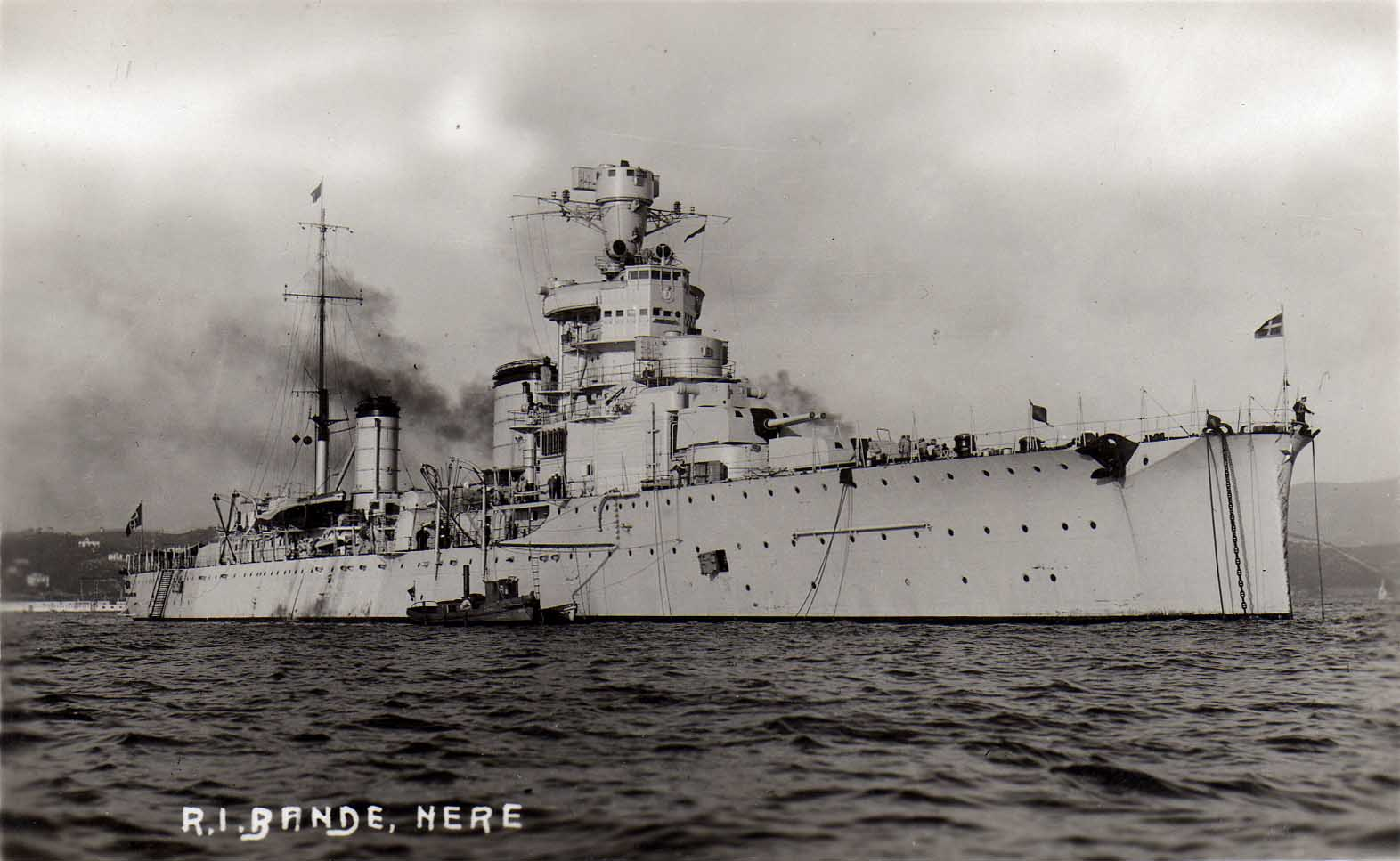 RIN Giovanni delle Bande Nere in harbor